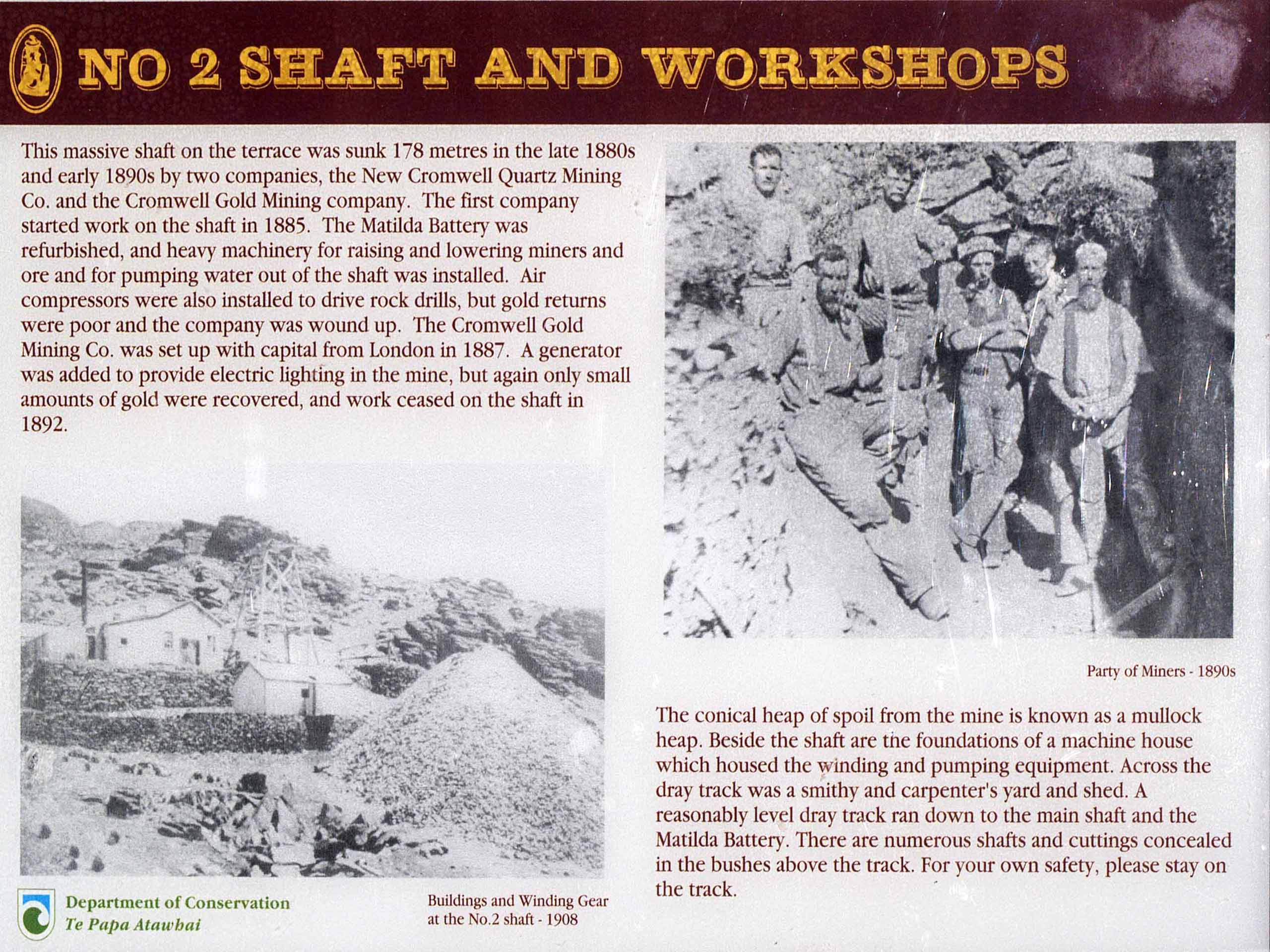 New Cromwell Quartz Mining Co. (1868) und Cromwell Gold Mining (1887), Logantown, Cromwell, Otago, New Zealand.